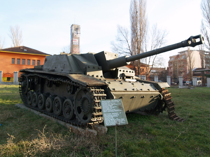 National Museum of Military History, Sofia, Bulgaria. Sturmgeschütz III Ausf F/8 or G In service in Bulgarian Army 1943 to 1947